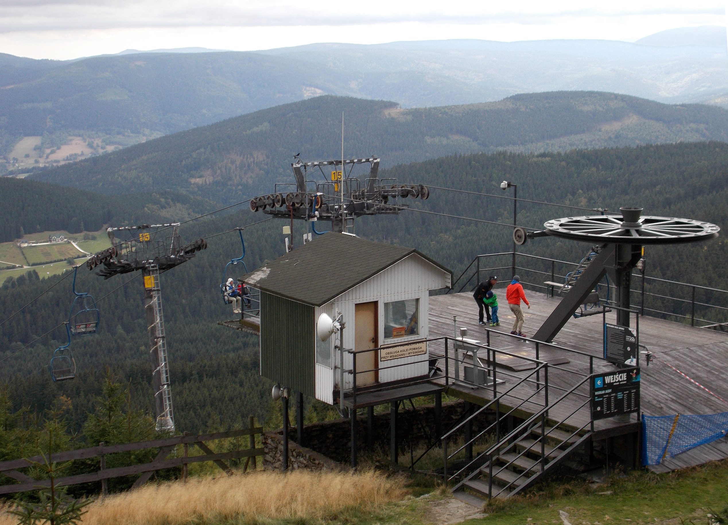 The upper station of the chairlift to Czarna Góra, Śnieżnik Mountains, Sudetes